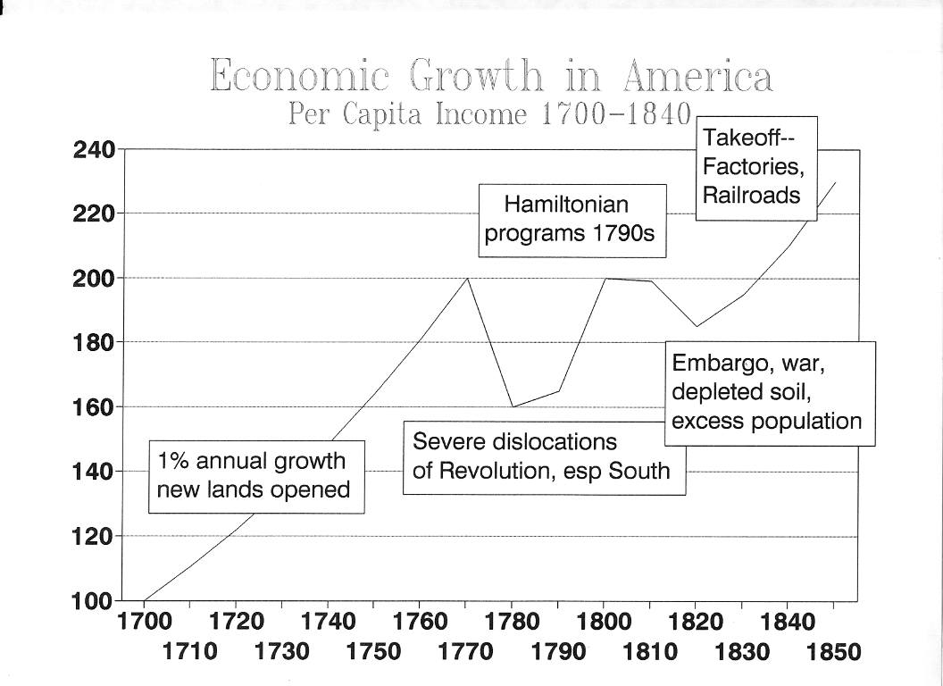 Chart of economic growth; from spreadsheet